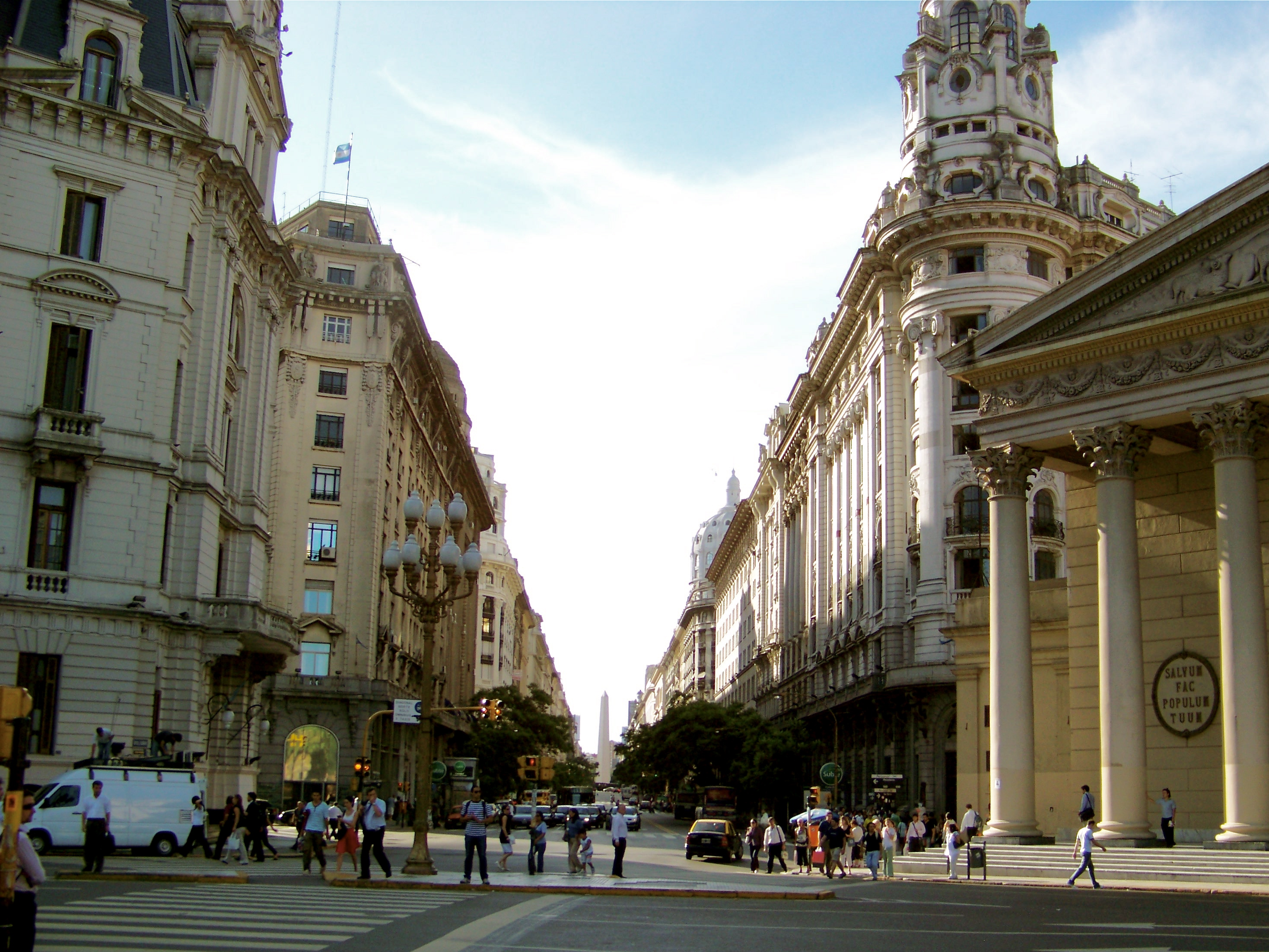 Roque Sáenz Peña Avenue (Diagonal Norte) viewed from the Plaza de Mayo, Buenos Aires, with the Obelisco in the distance.